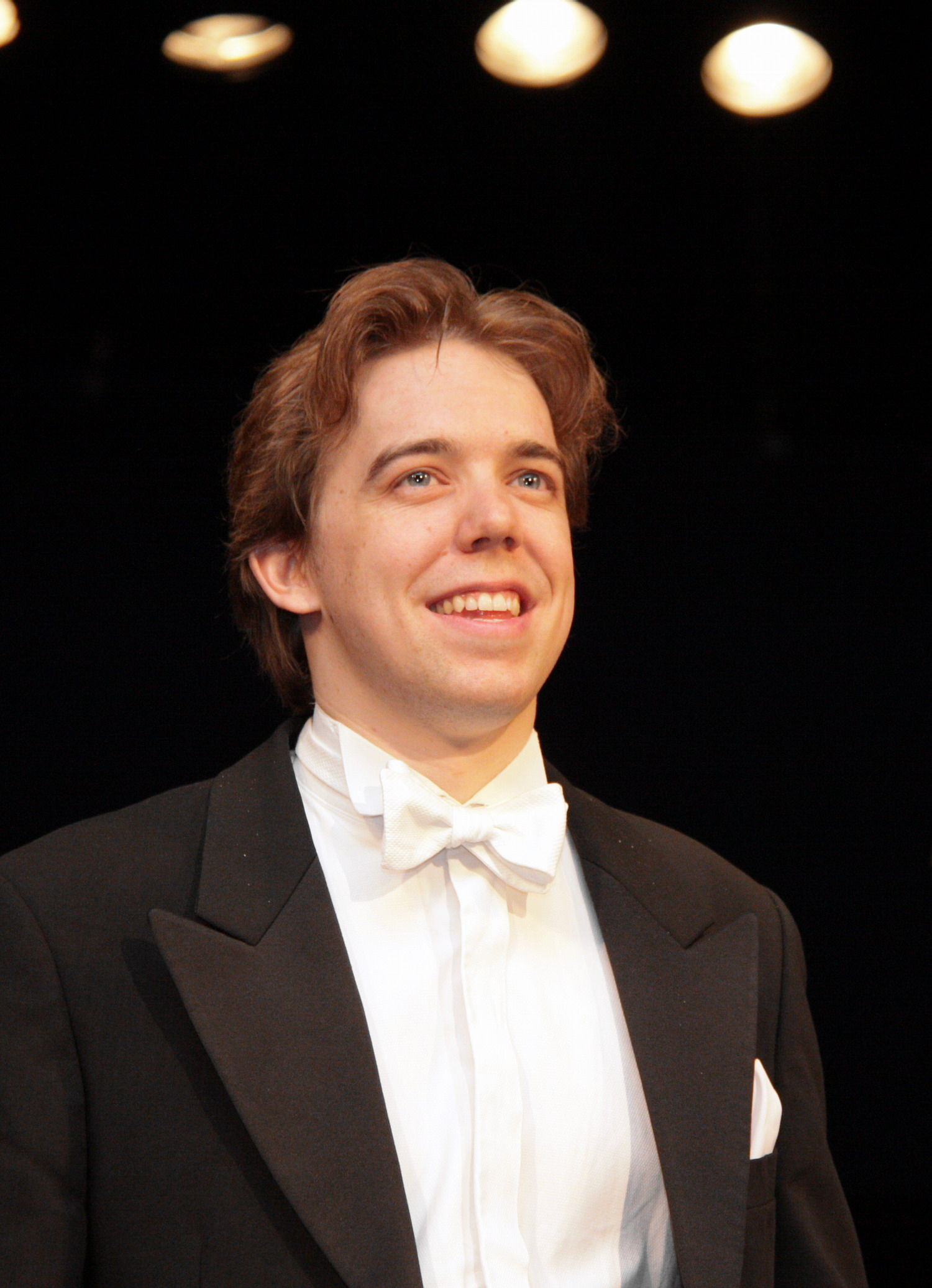 Ingolf Wunder, pianist. XVII International Music Festival of Krystyna Jamroz, Busko-Zdrój, 6.07.2011 r.